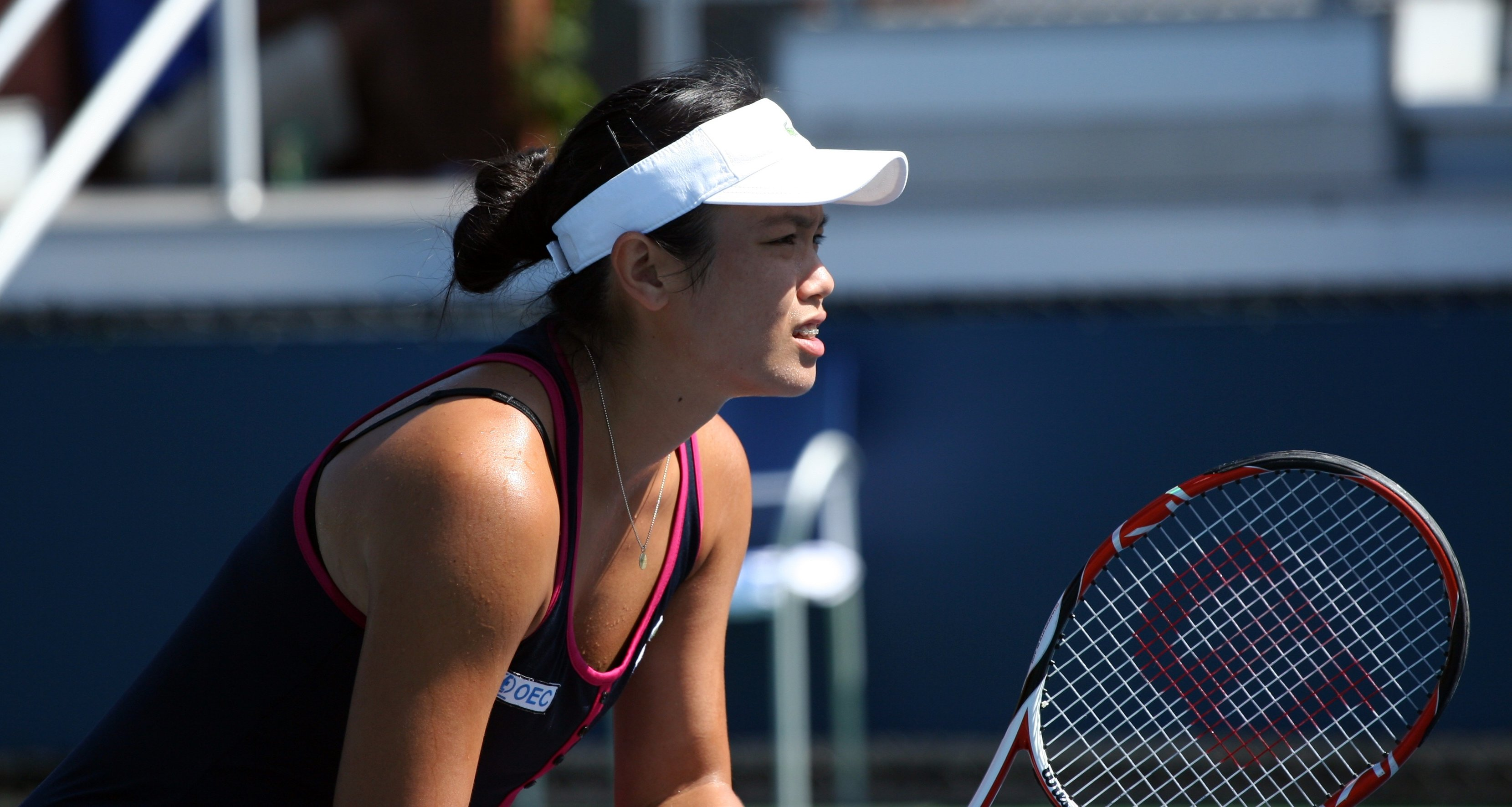 Chan Yung-jan at the U.S. Open, Wednesday, Sept. 2, 2009